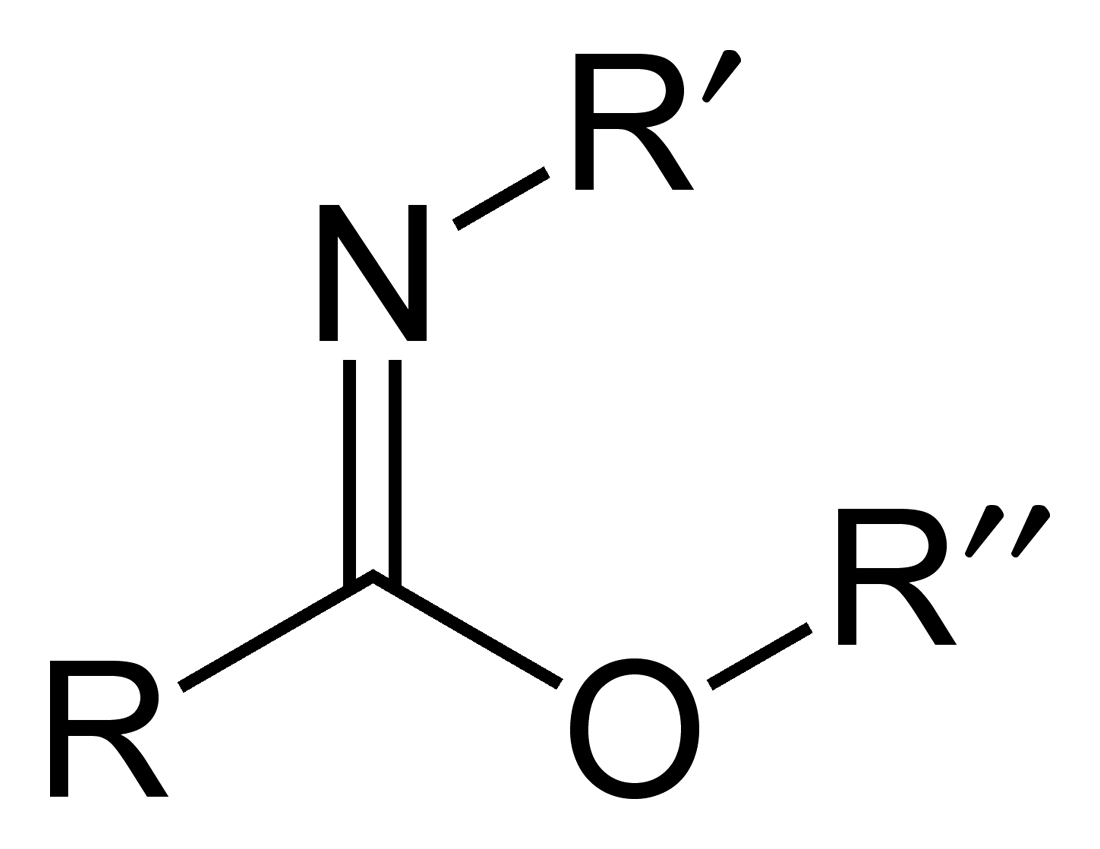 Skeletal formula of a general imidate